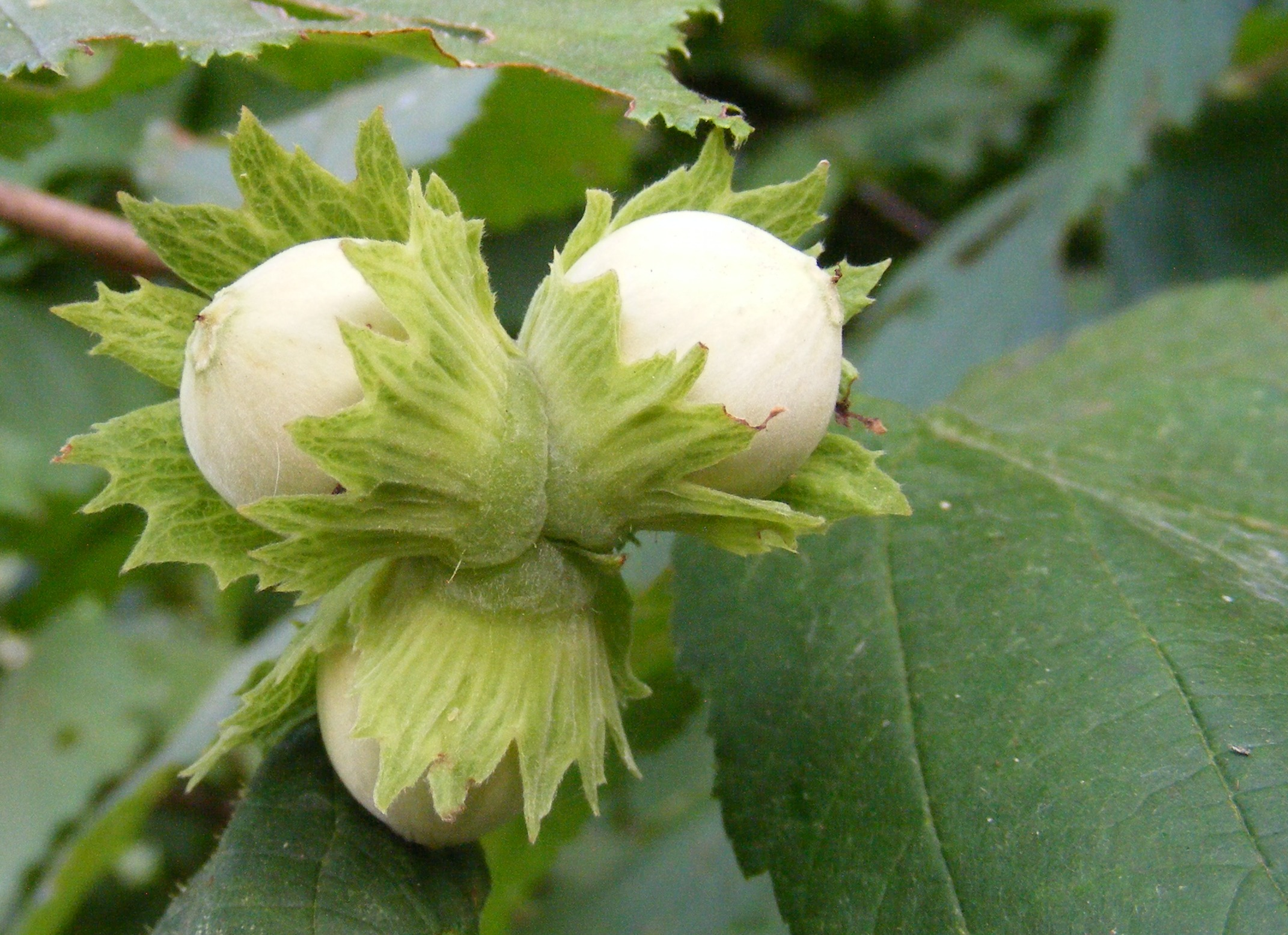 Three hazelnuts